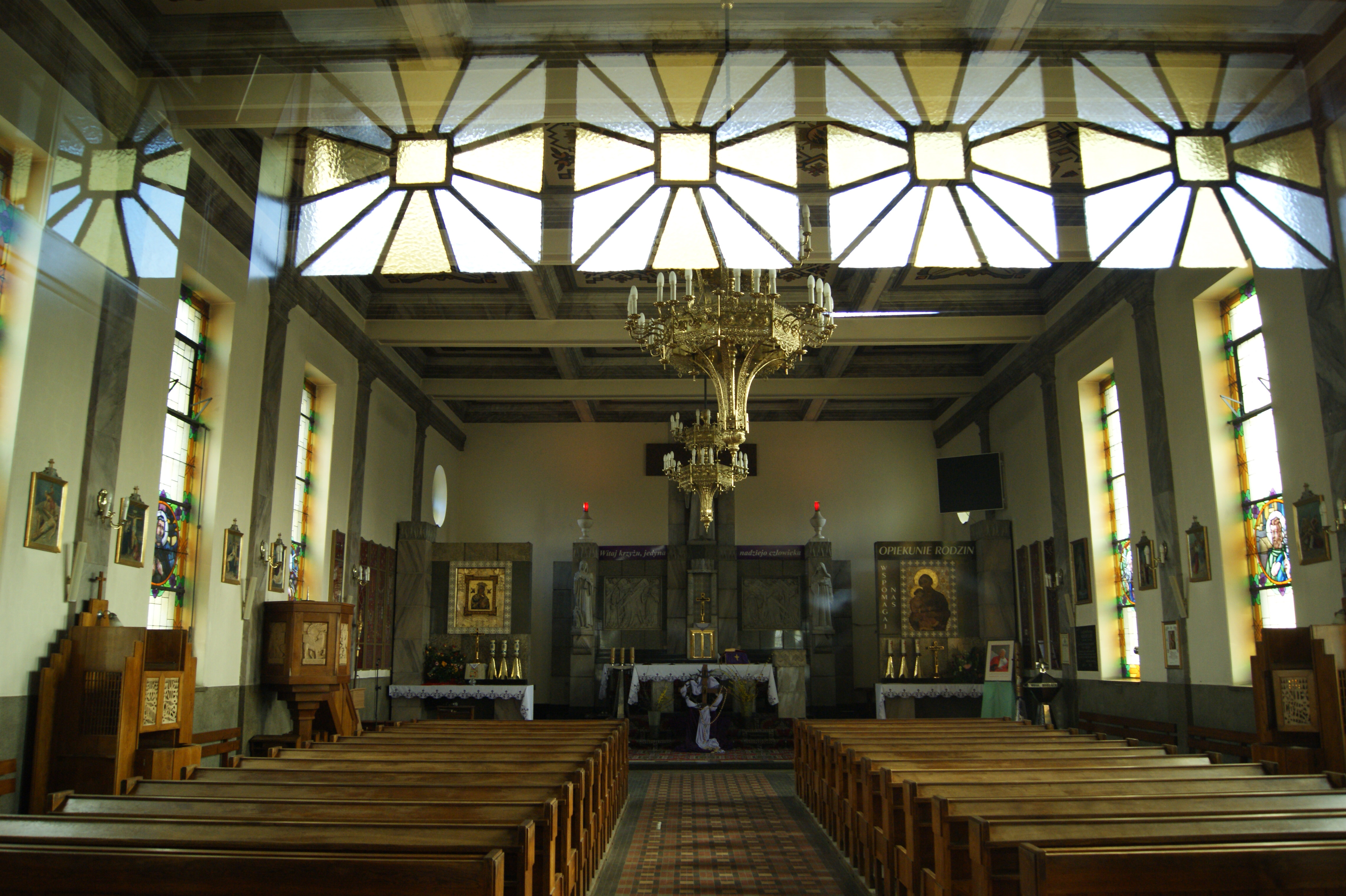 Church of the Sacred Heart of Jesus (inside), 2 Saska street,Plaszow,Krakow,Poland